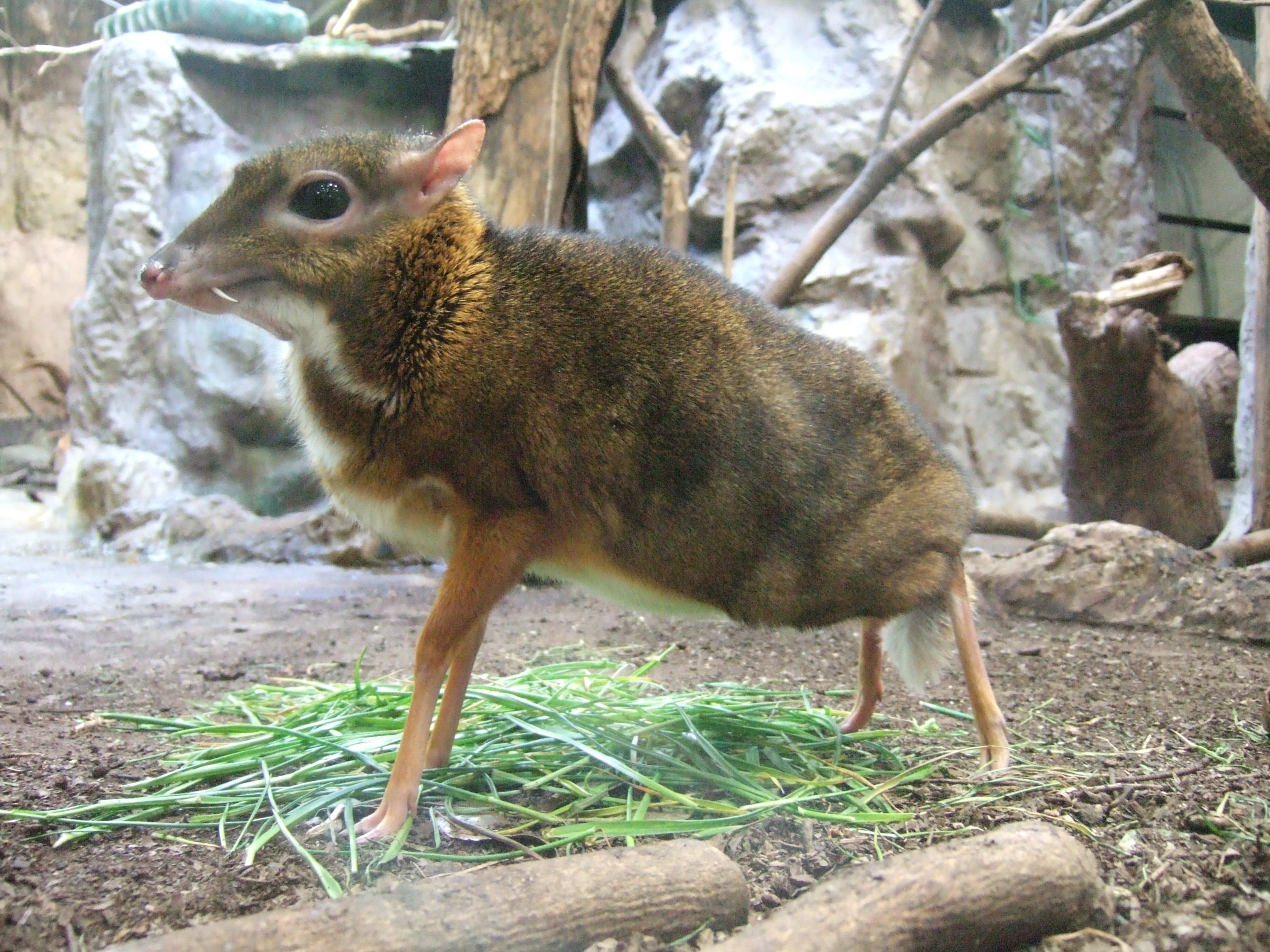 Tragulus javanicus at Ueno Zoo, Tokyo